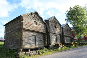 Boodona